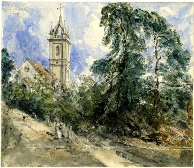 "Tillington Church, with path," watercolour with graphite, by the English artist John Constable. 232 mm x 264 mm. Courtesy of the British Museum, London.